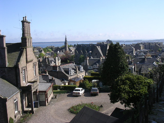 Overlooking central Broughty Ferry. This view over the rooftops of central Broughty Ferry extends to the Firth of Tay and the wooded area of Tentsmuir Point on the Fife side of the estuary. The church spire which breaks the line of the rooftops is East Church, in NO4630